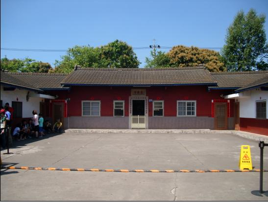 SunnyHill, Nantou, Taiwan